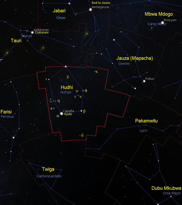 Constellation Auriga as seen from Tanzania, Swahili labelled Kiswahili: Kundinyota Hudhi (Auriga) jinsi inavyoonekana kutoka Tanzania, majina kwa Kiswahili